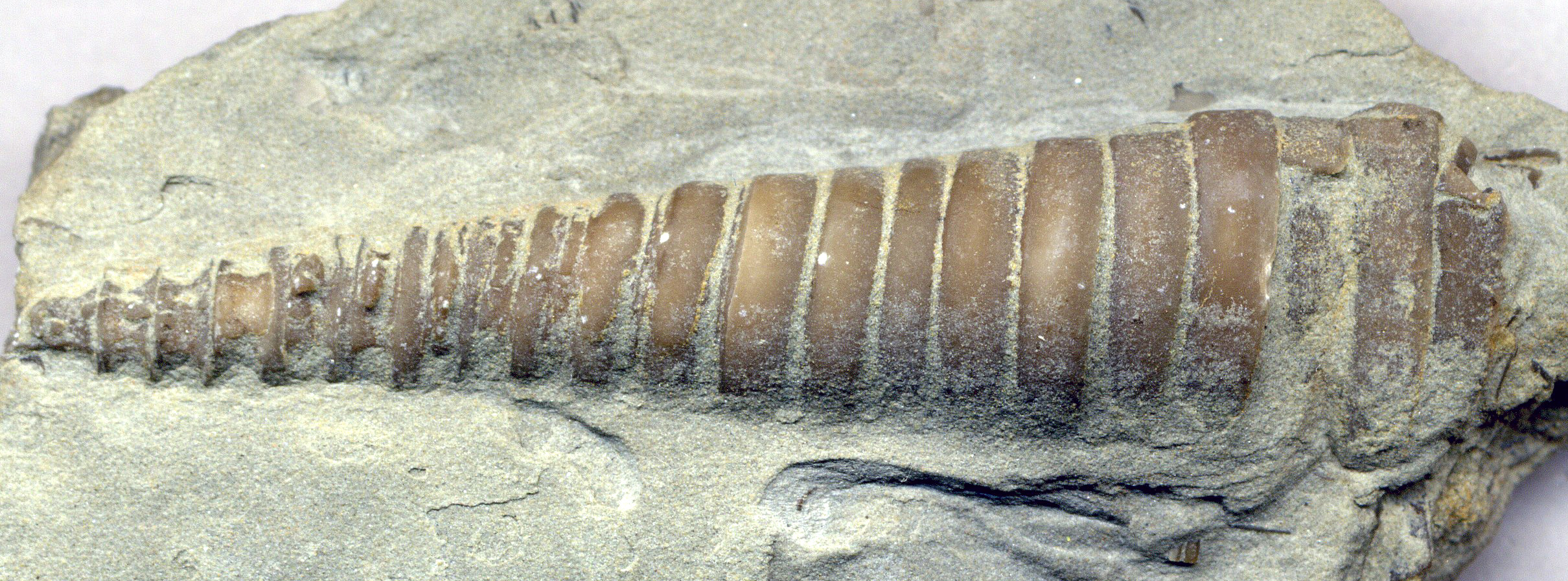 Treptoceras fossil nautiloid (4.8 cm across) in calcisiltite from the Ordovician of Kentucky, USA. This is a partial internal mold of a Treptoceras nautiloid cephalopod. The living animal was a squid-like creature that constructed a long, slightly tapering, aragonitic, hollow shell with regularly-spaced internal walls. The original aragonite shell has dissolved away, leaving an internal mold (impression of the shell's interior). Nautiloids were relatively common components of Paleozoic oceans. Most species had straight, slightly tapering shells, but some had loosely coiled or tightly coiled shells The entire group is represented in today's oceans by three living species of chambered nautilus - Nautilus pompilius, Nautilus macromphalus, and Allonautilus scrobiculatus. Classification: Animalia, Mollusca, Cephalopoda, Nautiloidea, Orthocerida Stratigraphy: Kope Formation, Edenian Stage, lower Cincinnatian Series, Upper Ordovician Locality: loose piece from roadcut along the northeastern side of the AA Highway, immediately southeast of the Rt. 154 intersection, west-southwest of the town of Moscow (Ohio), northern Kentucky, USA (38° 50' 13.65" North, 84° 15' 36.81" West)